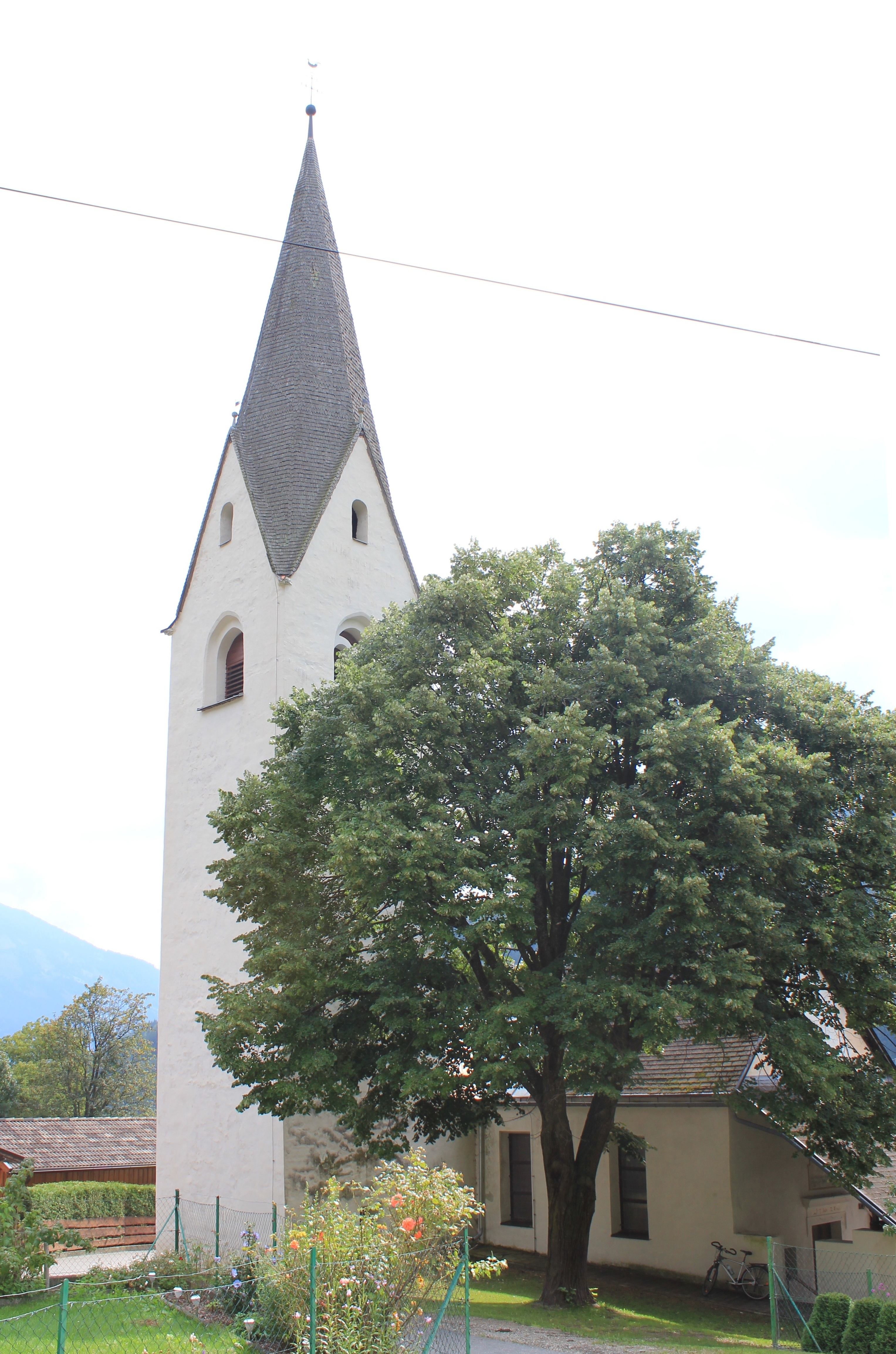 Church of Söbriach in the community of Obervellach